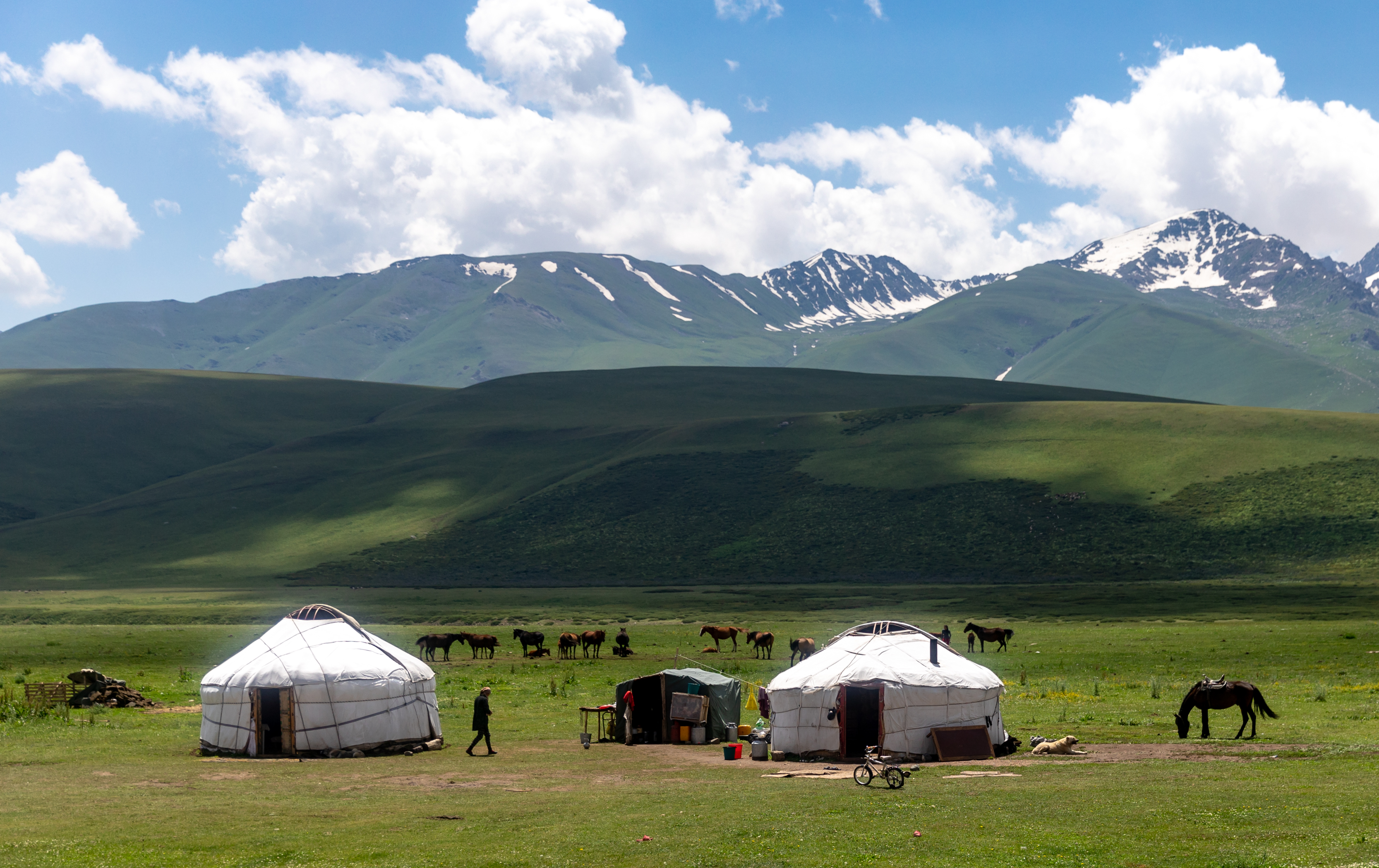 Life in yurts